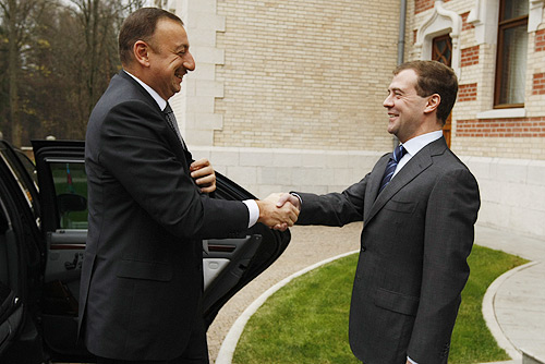 MEIENDORF CASTLE, MOSCOW OBLAST. With President of Azerbaijan Ilham Aliyev.